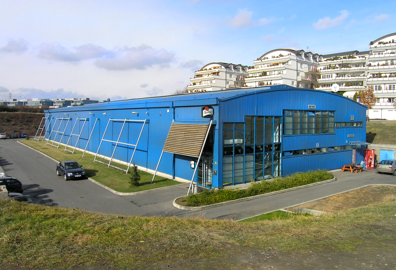 Curling hall at Roztyly, Prague